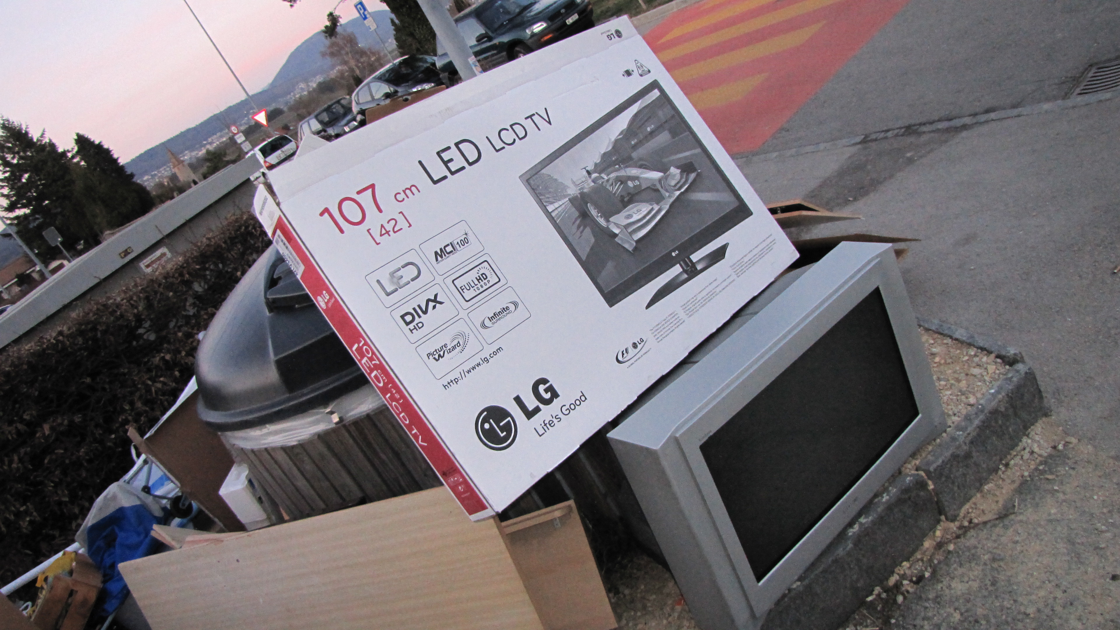 TV CRT waste ends up with the packaging of a LCD TV...